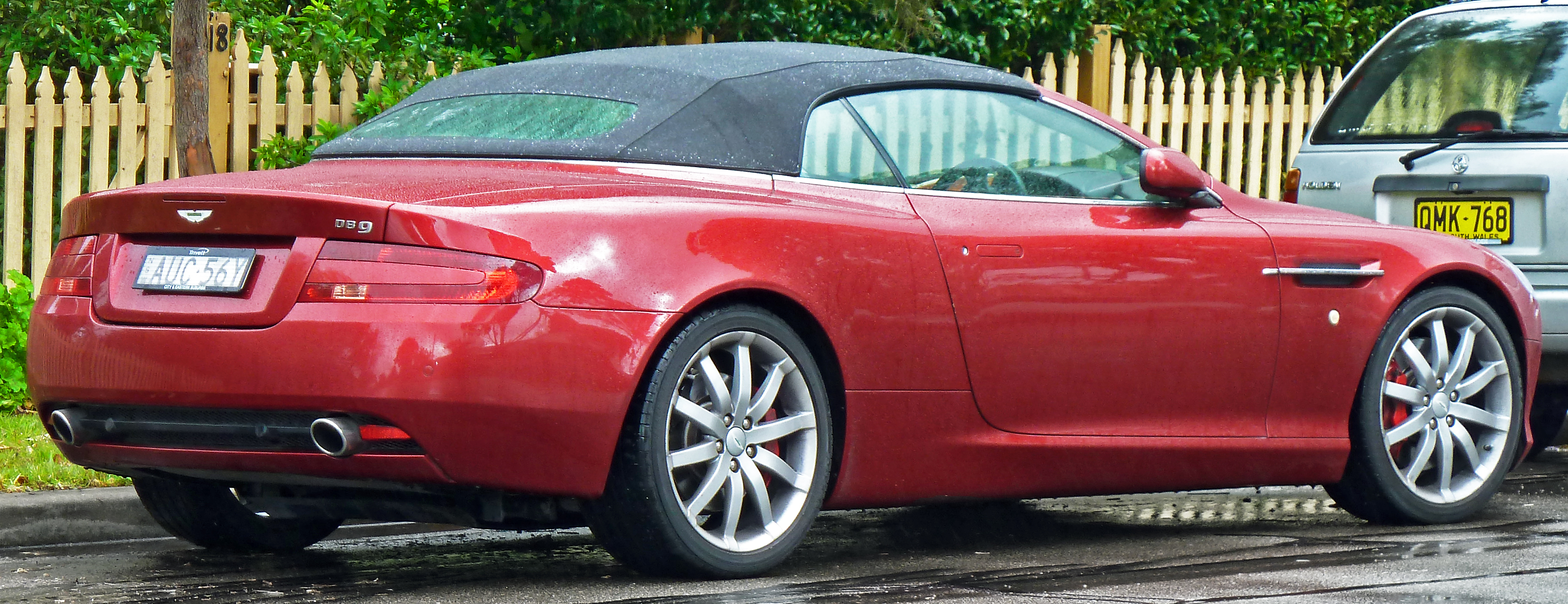 2005 Aston Martin DB9 Volante convertible. Photographed in Chatswood, New South Wales, Australia.